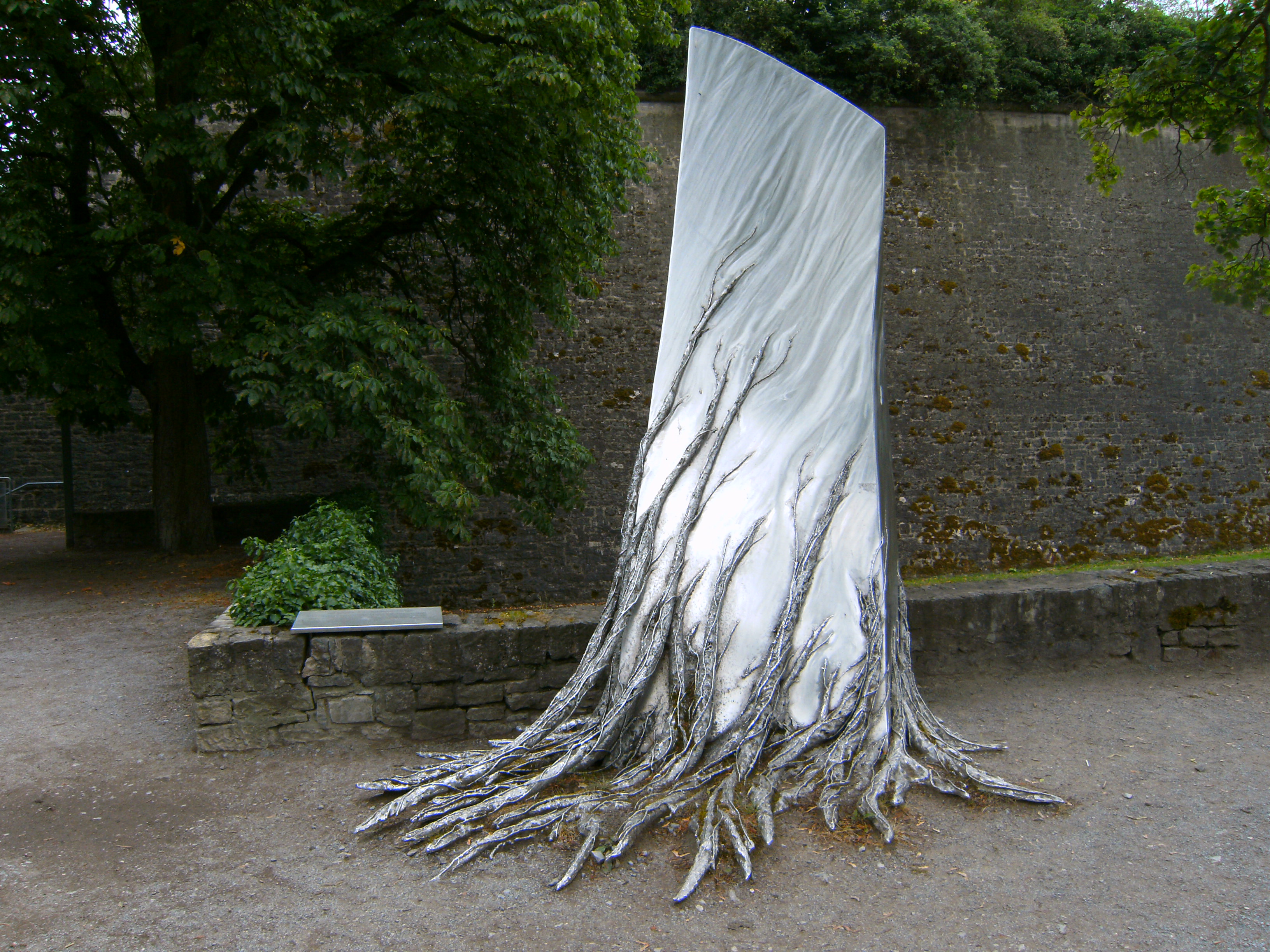 Festung Marienberg (fortress Marienberg), Würzburg, Germany: Peasants' War Monument at the foot of the fortification.